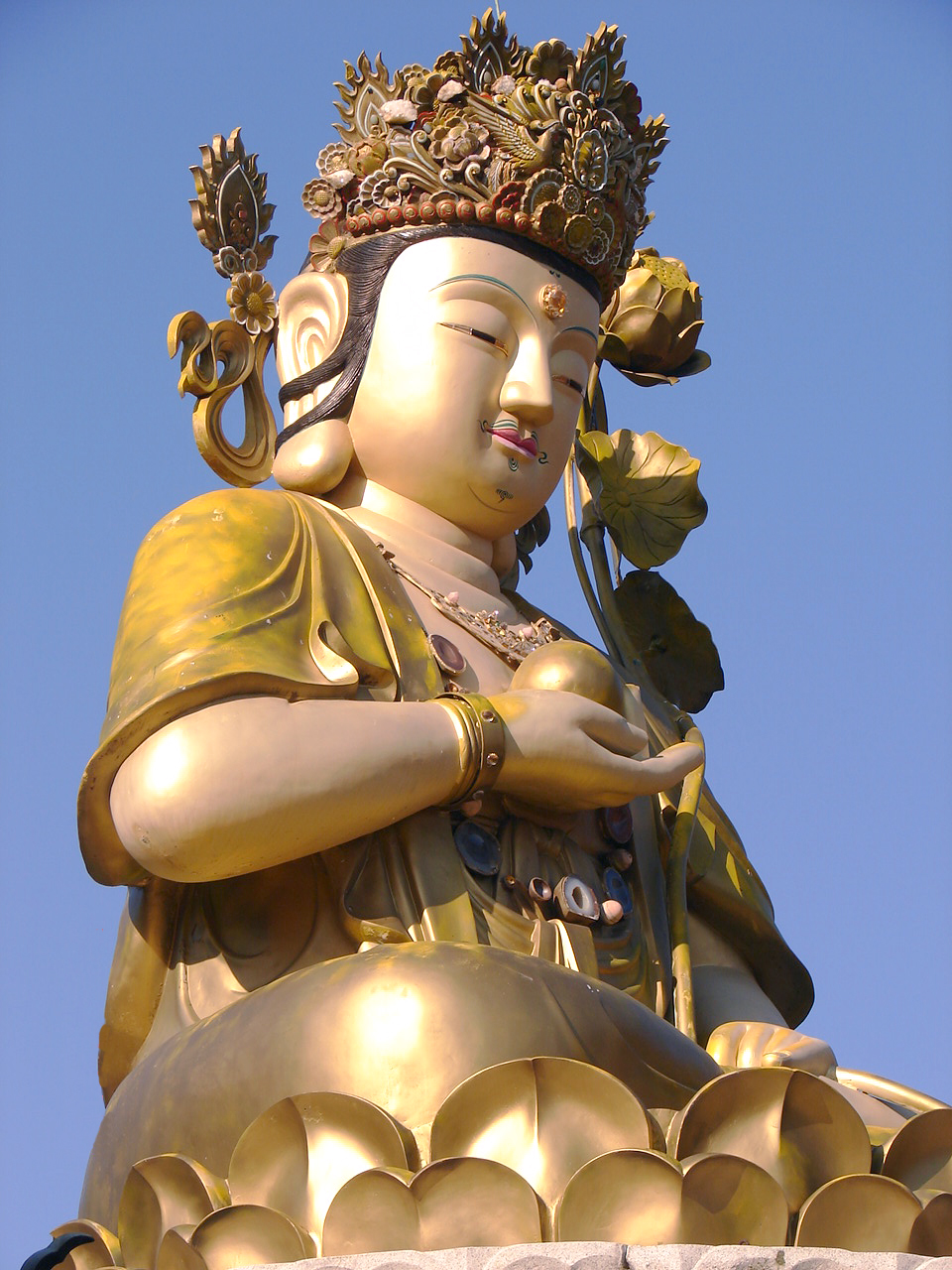 Chungryunam (Blue Lotus Hermitage) is one of the eleven heritages nearby and administratively attached to Beomeosa.